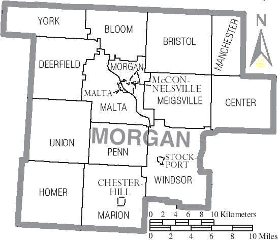 Map of Morgan County, Ohio, United States with township and municipal boundaries